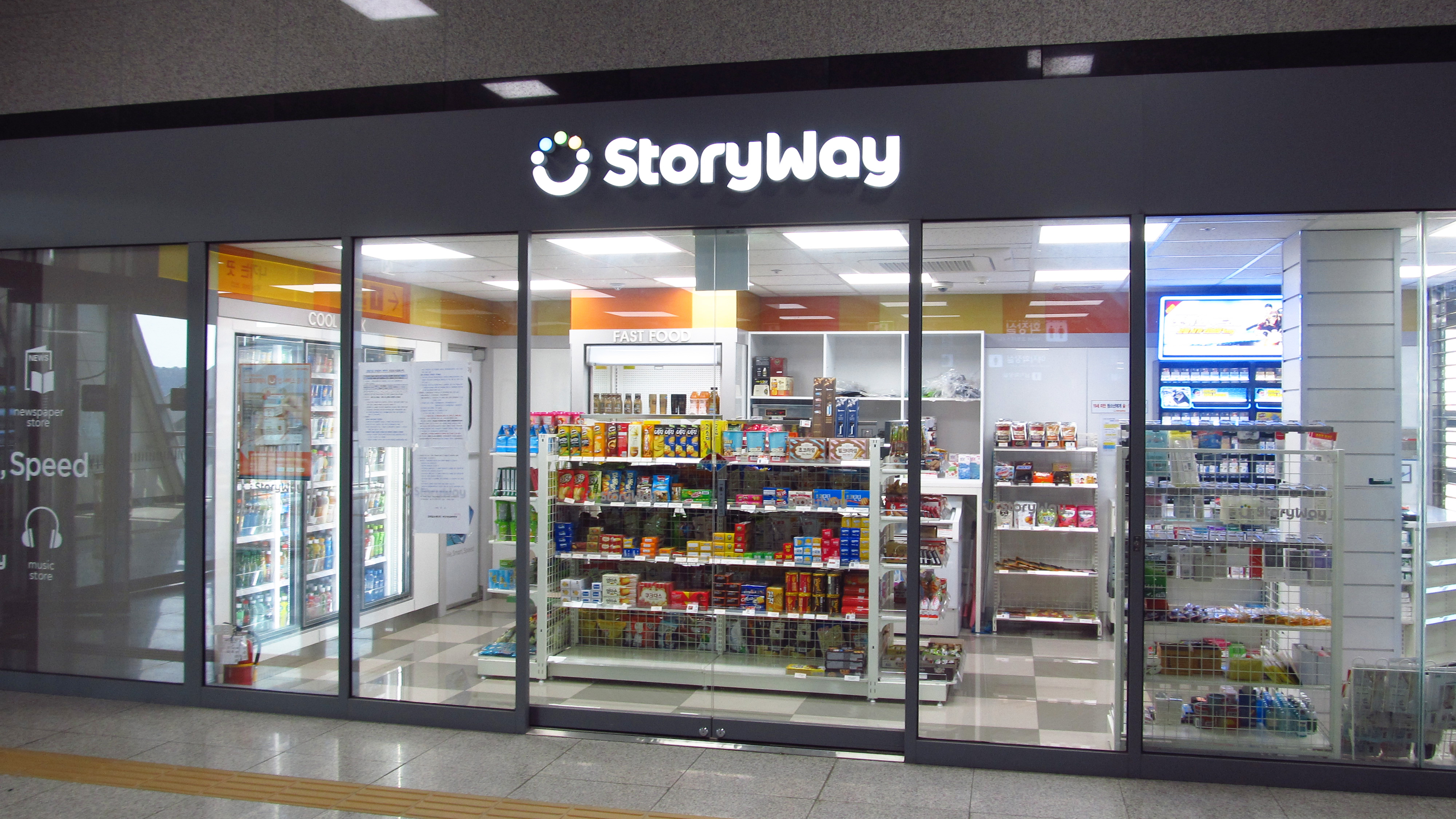 The Storyway store on Ilgwang Station in Gijang-gun, Busan, Republic of Korea(South Korea)